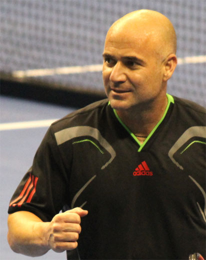 Andre Agassi at the Champions Shootout, Wells Fargo Center, Philadelphia